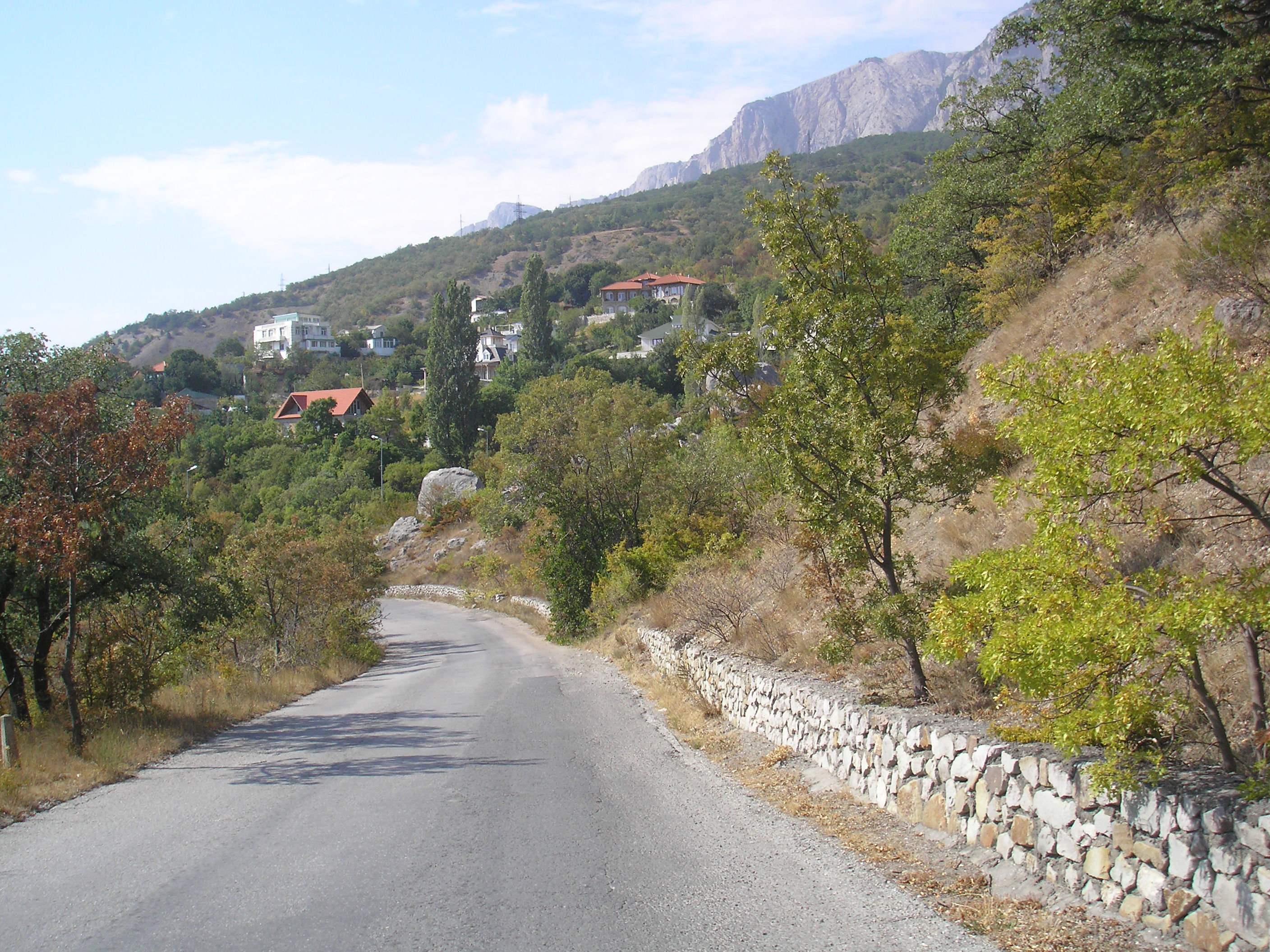 Part of the settlement Parkovoe (formerly Beketovo), Borough of Yalta, Crimea.